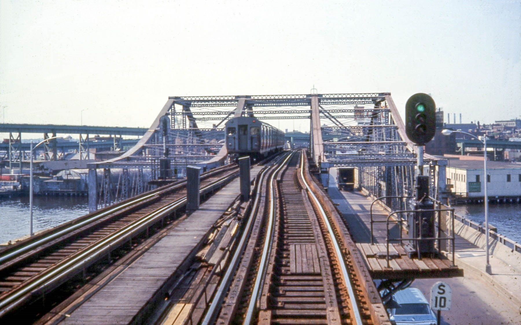 An inbound Main Line El (Orange Line) train passes over the Charlestown Bridge in 1967